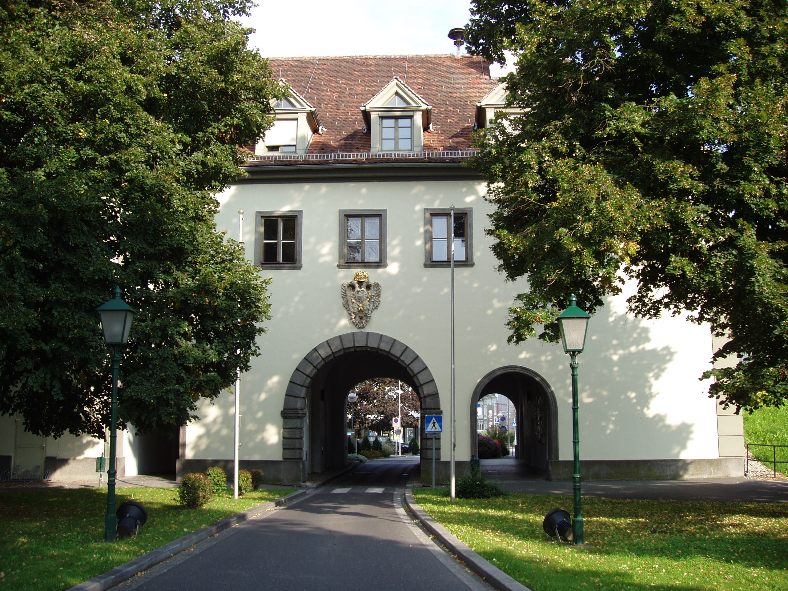 Grazertor Fürstenfeld